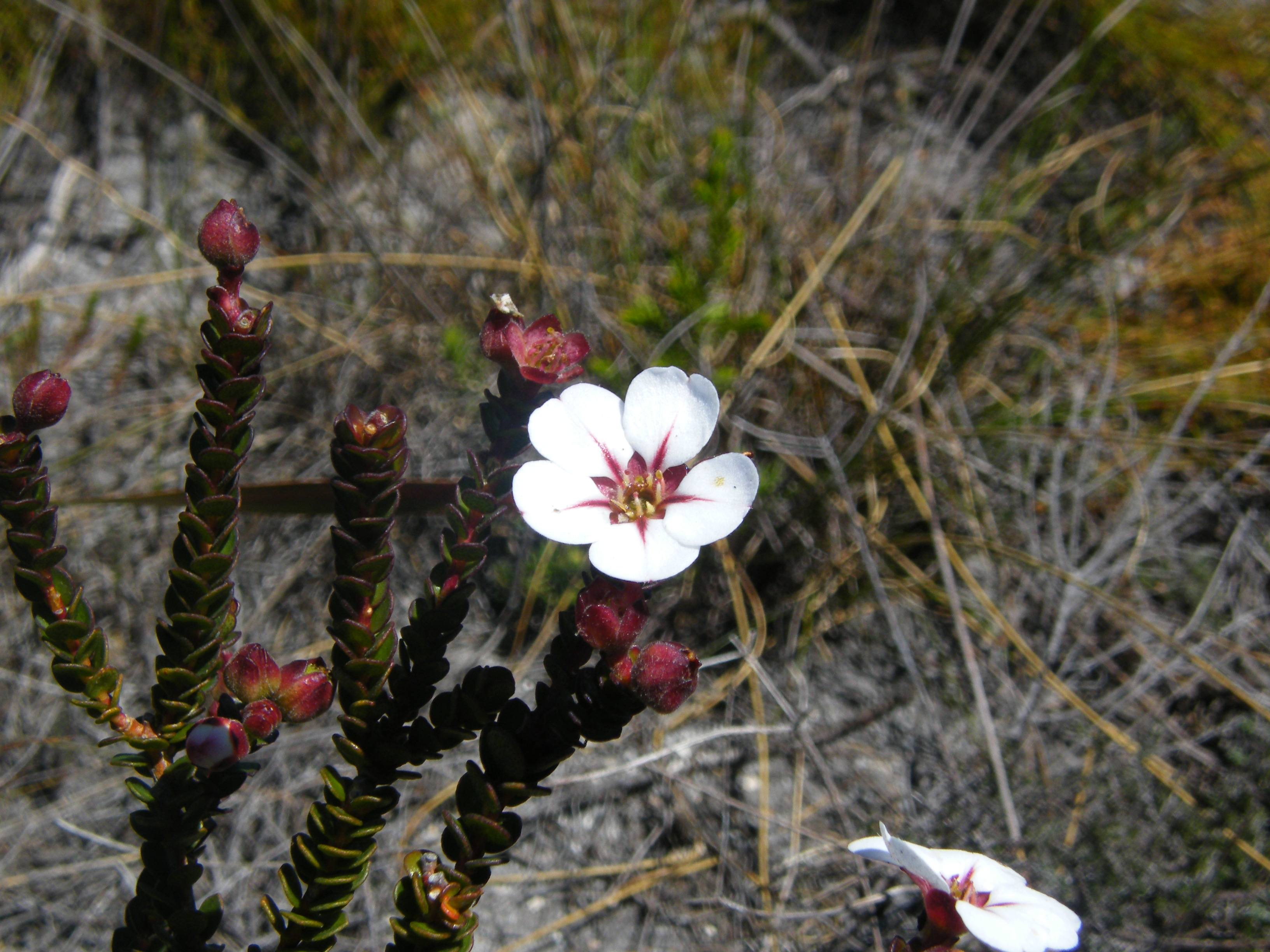 China Flower